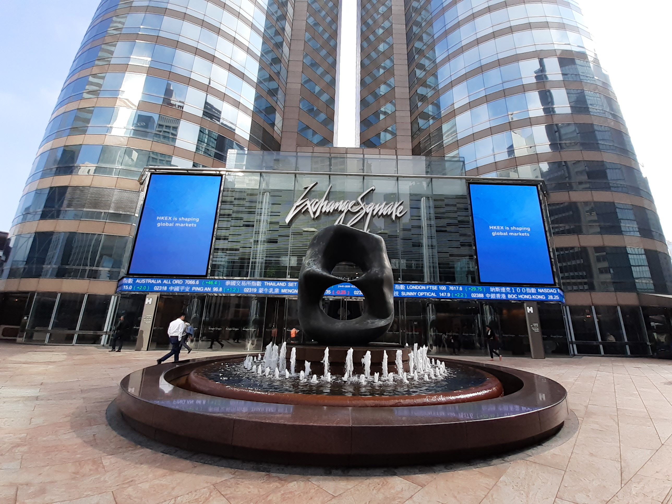 HK 中環 Central 交易廣場 Exchange Square sculpture in January 2020